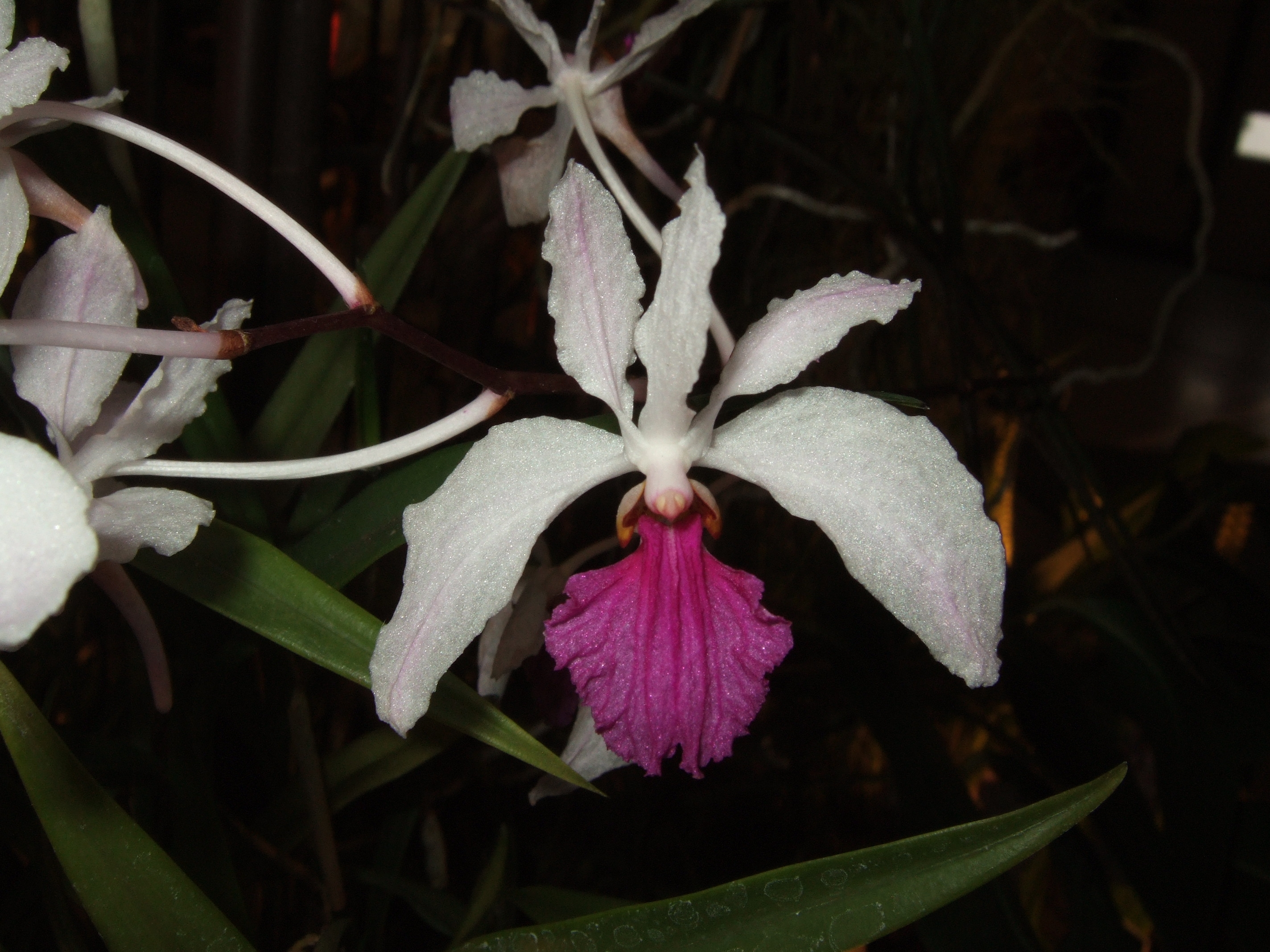 Flower of Holcoglossum kimballianum.